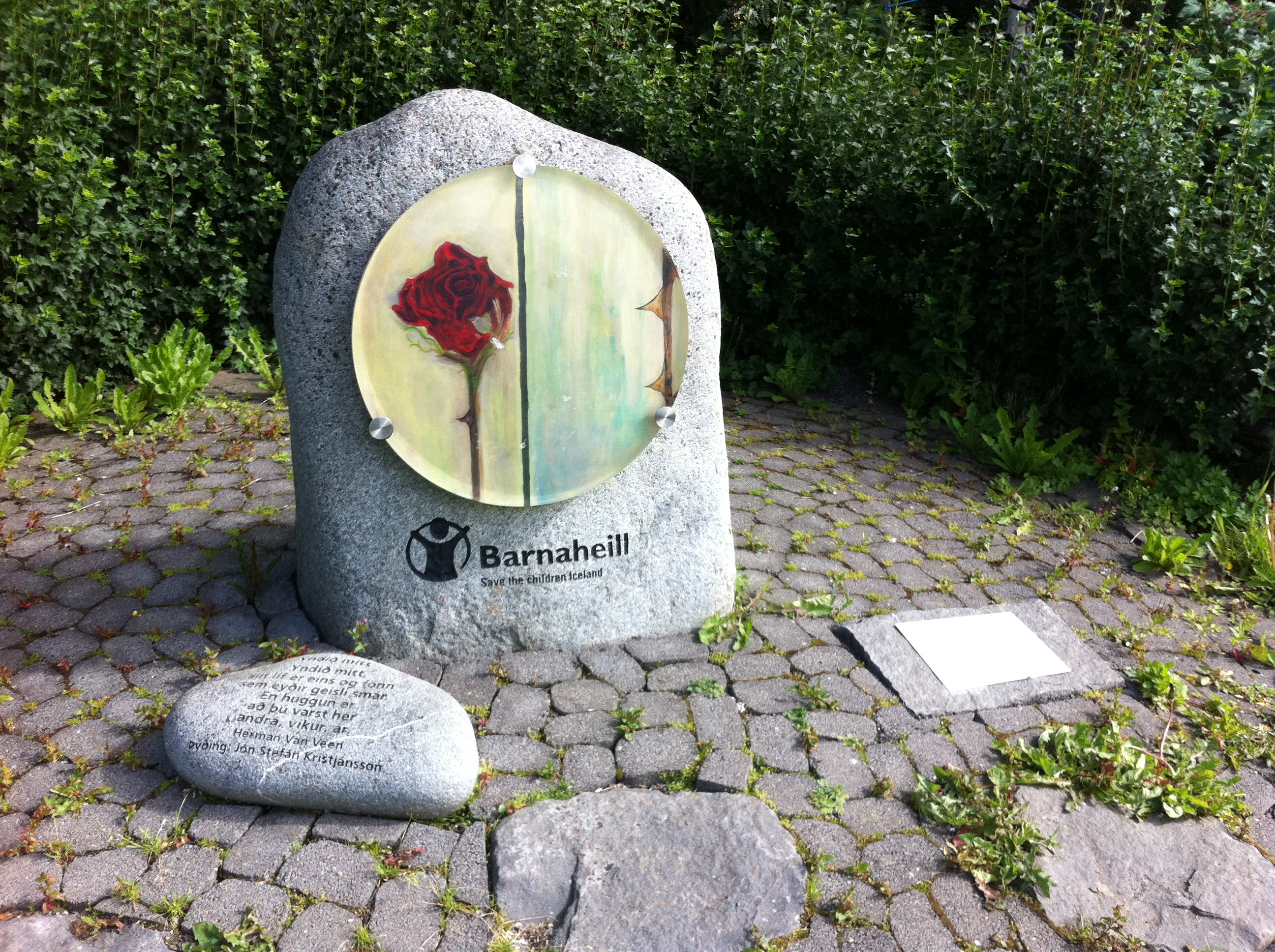 Monument for the unknown child in Reykjavik, Iceland; this monument is part of monuments in different countries of the world. This is the reason it is (part of) an "international monument".